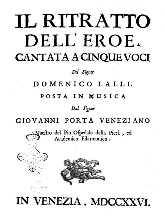 Title page of the libretto for the cantata Il ritratto dell'eroe printed in Venice for a performance in 1726. The music was composed by Giovanni Porta (1675–1755).